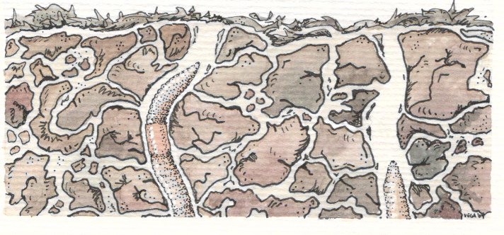 Lumbricus terrestris. Earthworm. Pen and watercolours.